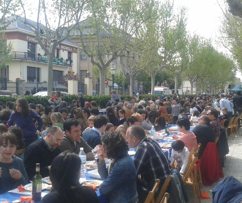 It is a picture taken at Passeig Verdaguer in front of the Fundació Escola Mowgli for the 50th anniversary celebration.